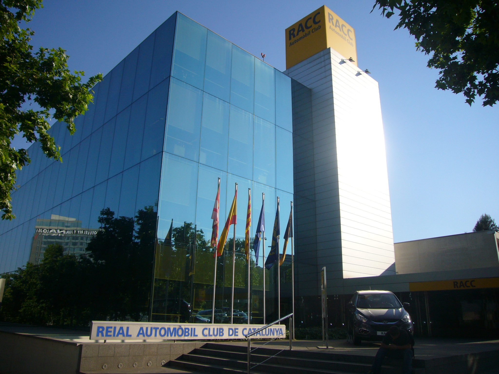 Headquarters of RACC (Reial Automòbil Club de Catalunya) - Avinguda Diagonal, Barcelona, Spain